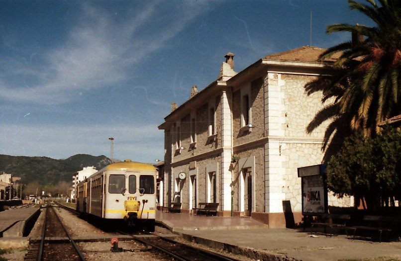 Inca station of ex-FEVE in Majorca Island, March 1990.